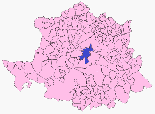 Serradilla